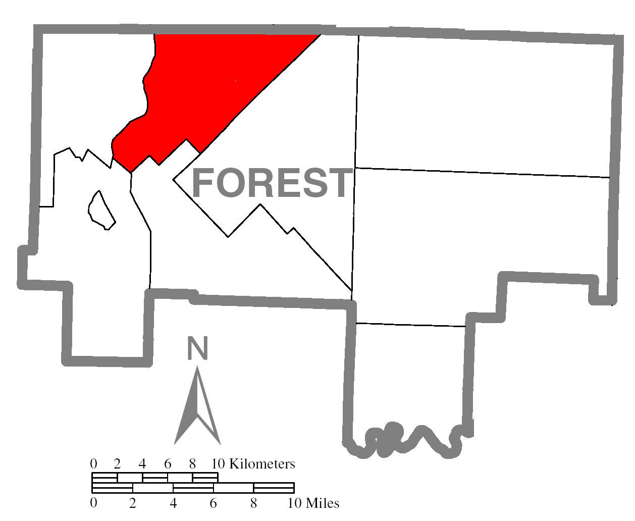 A map of Forest County showing Hickory Township, Pennsylvania (alternate) highlighted on the map.